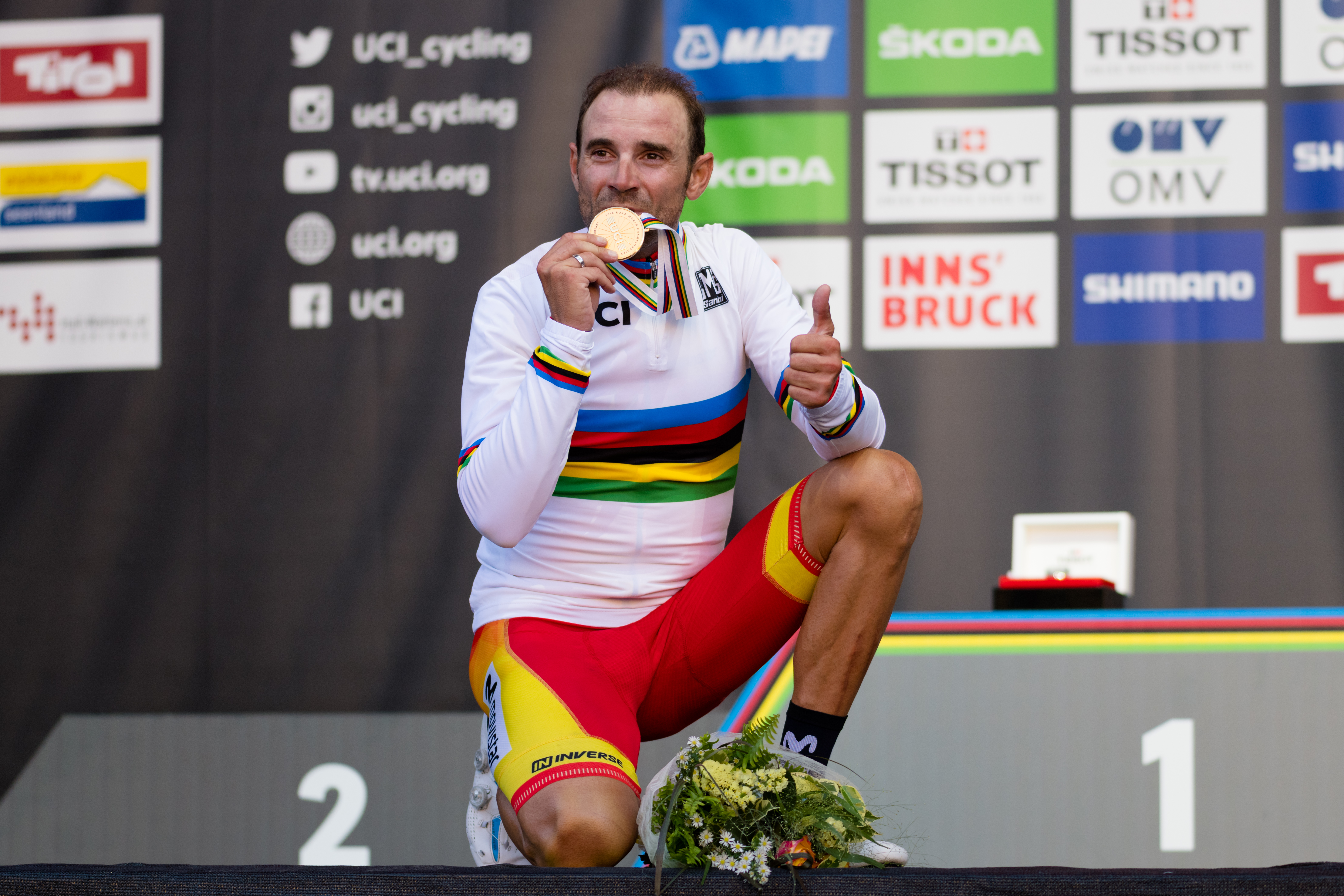 2018 UCI Road World Championships Innsbruck/Tirol Men Elite Road Race. Picture shows: Award Ceremony, winner Alejandro Valverde of Spain